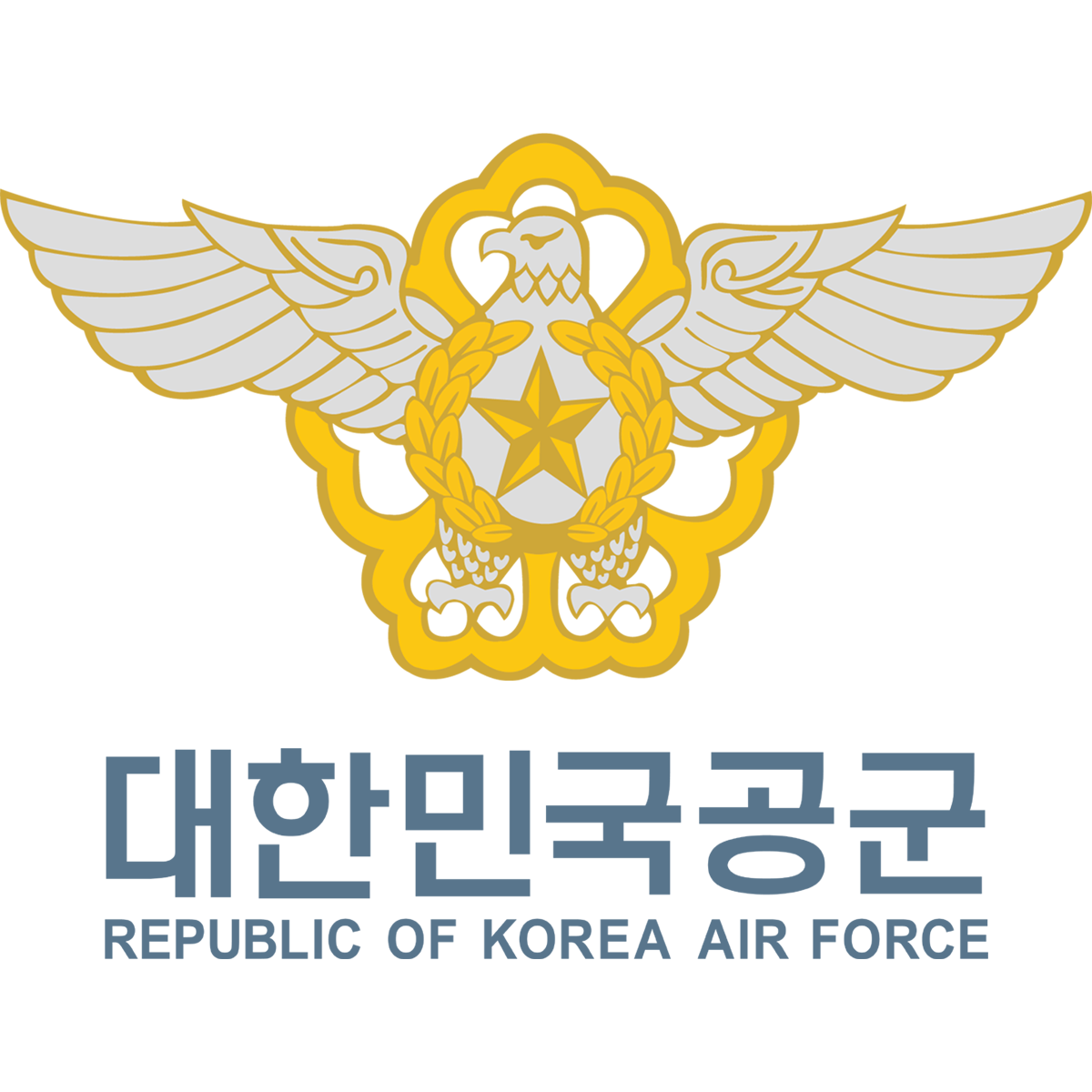 ROKAF Mark means Republic of Korea Air Force can control and defend national skies as aerospace forces and be willing to protect the life and property of the people through war victory not to lose its national identity.